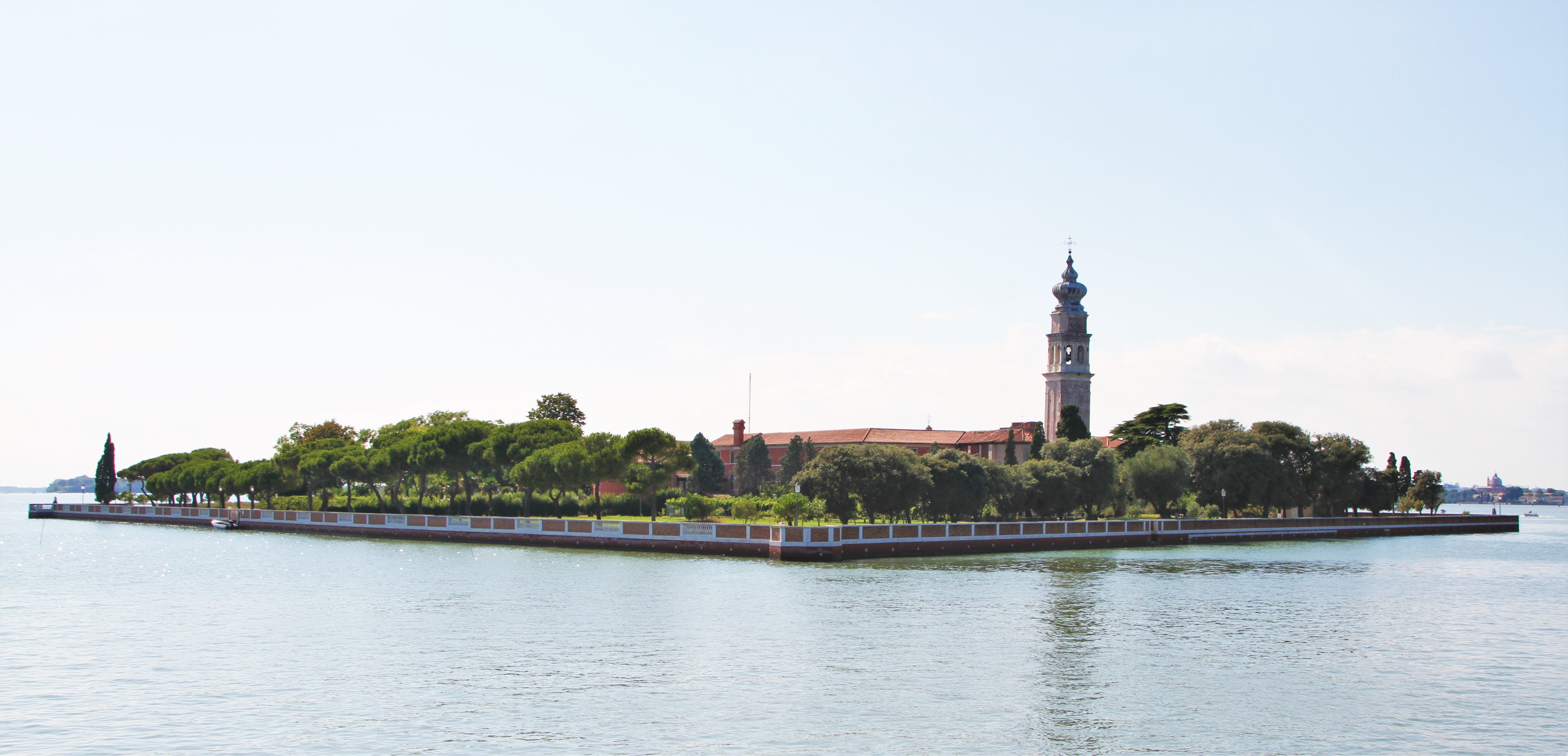 San Lazzaro Island in the south of Venice, near Lido